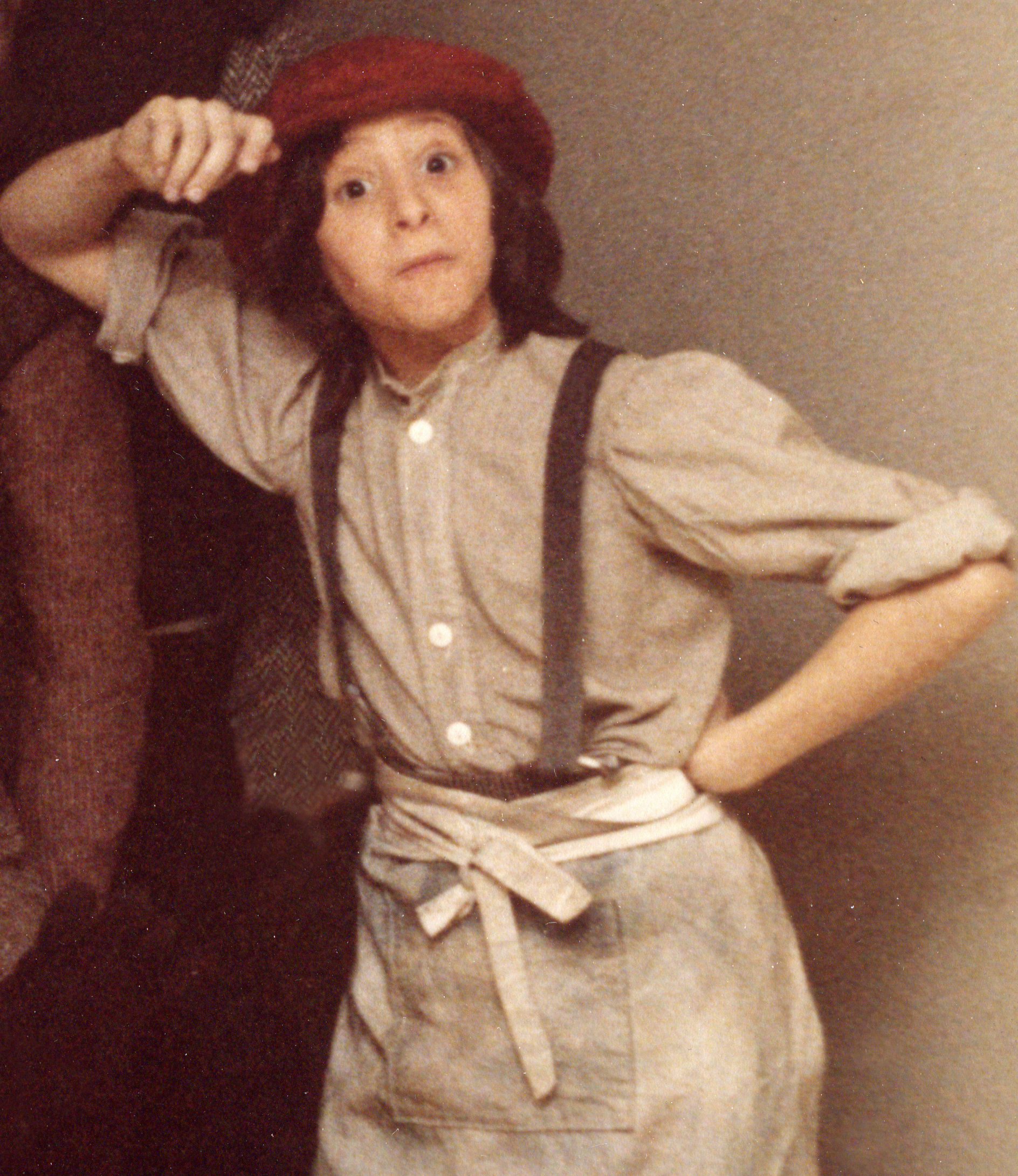 Andrew Joshua Koenig (1968-2010) as Page Boy, a non-singing, non-speaking role, in Los Angeles Philharmonic production of Verdi's Falstaff, April 1982; among other duties, it is his responsibility to deliver the letters of proposition to Falstaff's intended mistresses